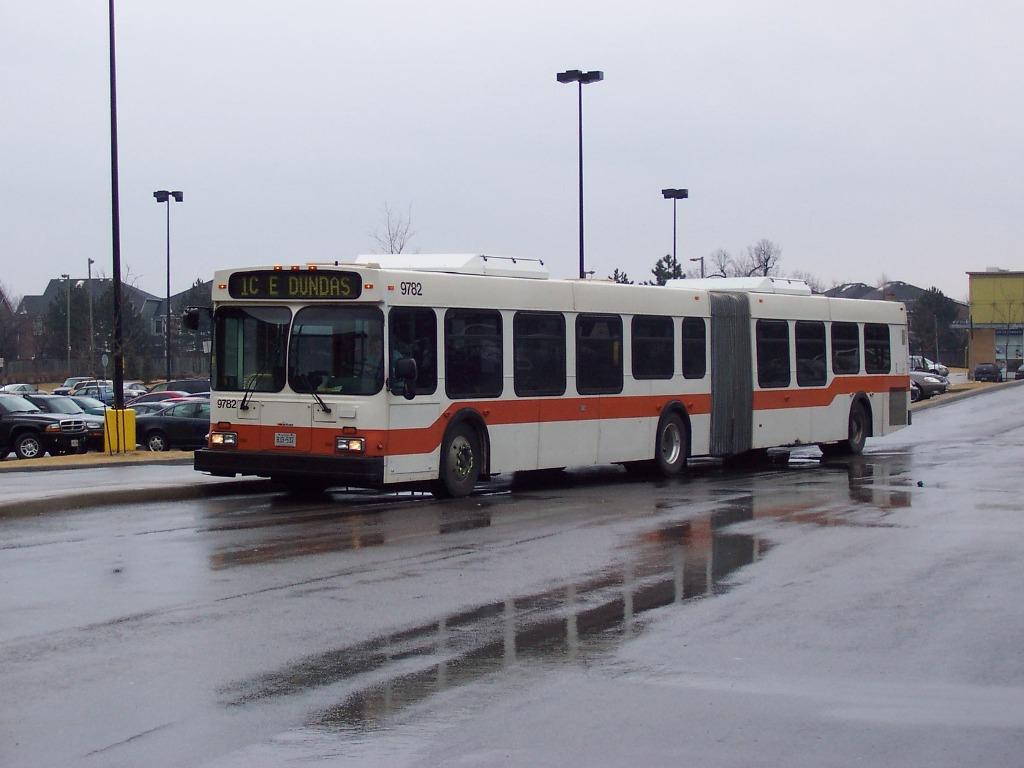 Mississauga Transit New Flyer D60LF #9782 at South Common Mall in Mississauga, Ontario. These buses are going through mass retirement.